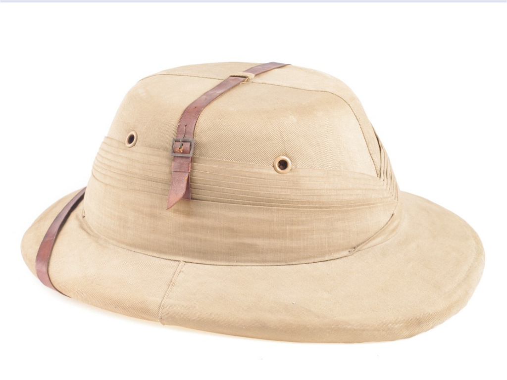 Indian shola style pith helmet License on Flickr (2011-02-04): CC-BY-2.0 Flickr tags: shola, pith, helmet, helmets